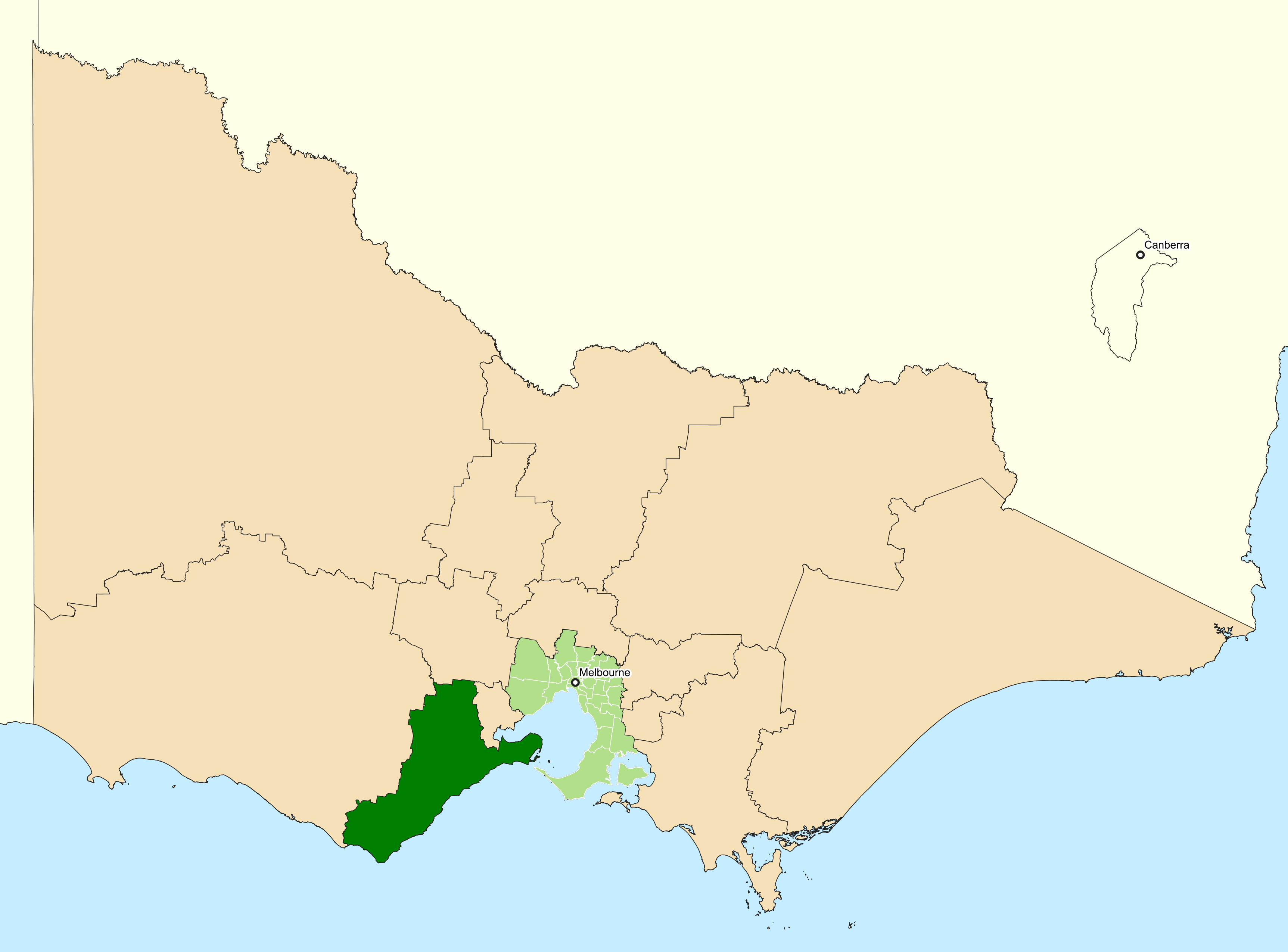 Location of the Australian federal electoral division of Corangamite (dark green) in Victoria as of the 2019 Australian federal election. Incorporates or developed using Administrative Boundaries ©PSMA Australia Limited licensed by the Commonwealth of Australia under Creative Commons Attribution 4.0 International licence (CC BY 4.0).